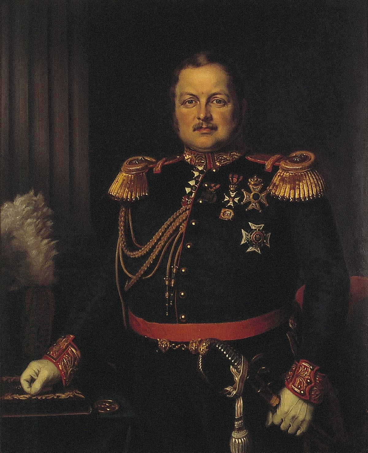 Johan Hendrik Voet (1793-1852) door Johan Heinrich Neuman